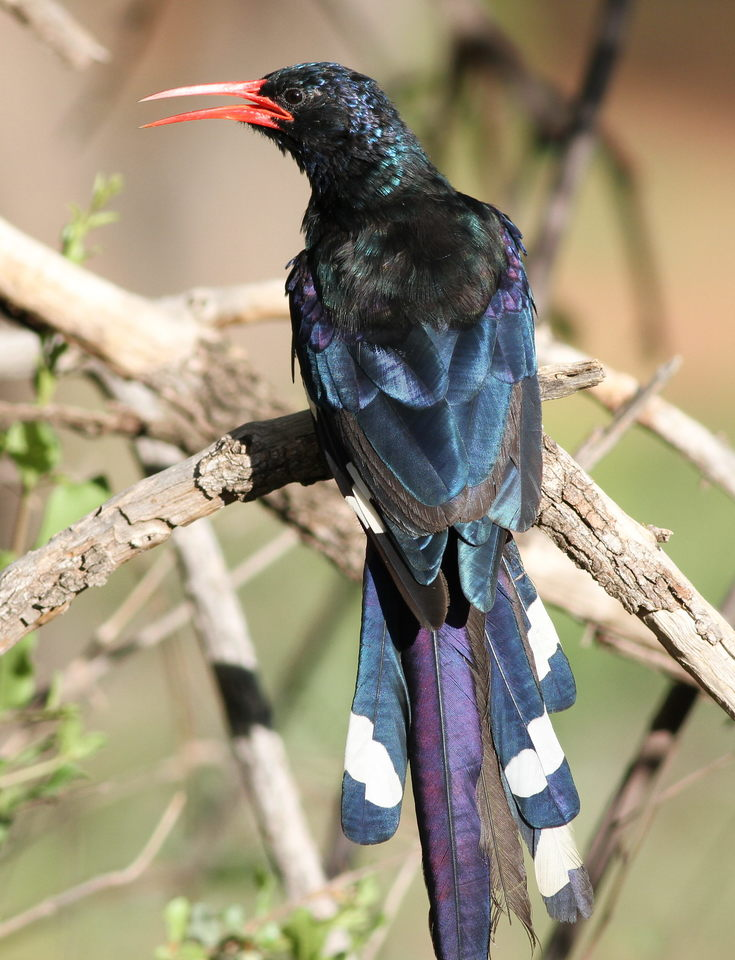 Green Wood Hoopoe, Phoeniculus purpureus, at Marakele National Park, Limpopo, South Africa